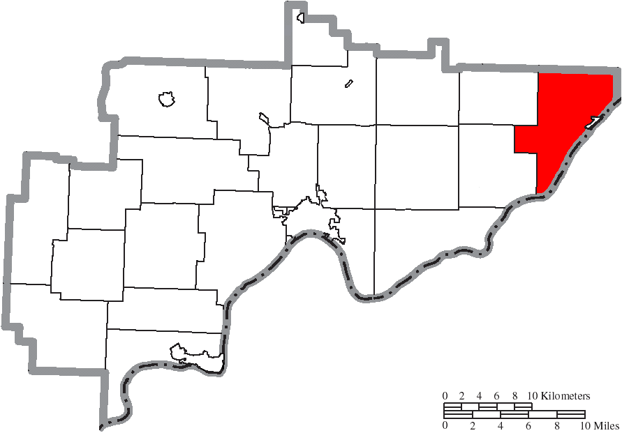 Map of the municipal and township boundaries of Washington County, Ohio, United States, as of the 2000 census, with the location of Grandview Township highlighted. Township borders are shown only in unincorporated areas in order to differentiate incorporated and unincorporated areas more clearly.